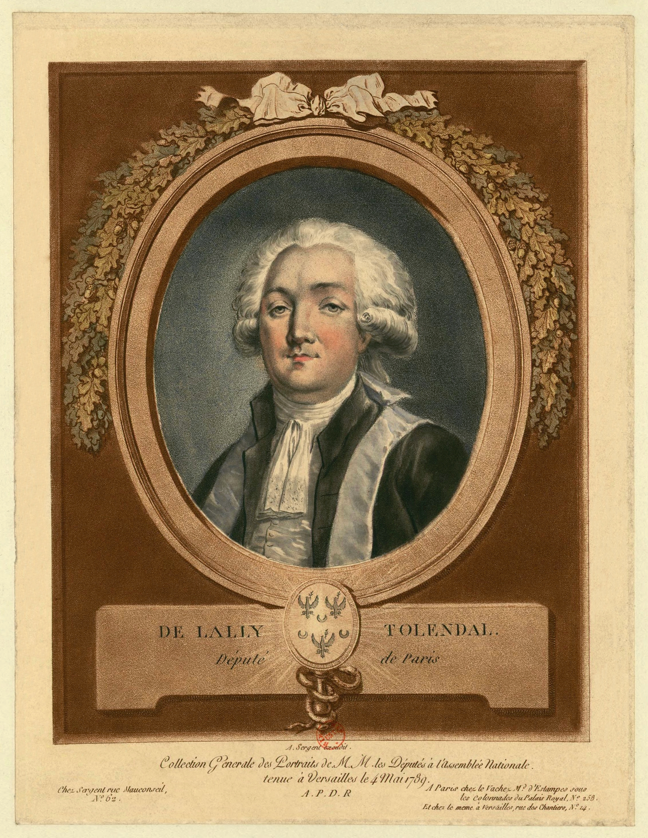 Gérard de Lally-Tollendal (1751 - 1830), french politician during the French great Revolution